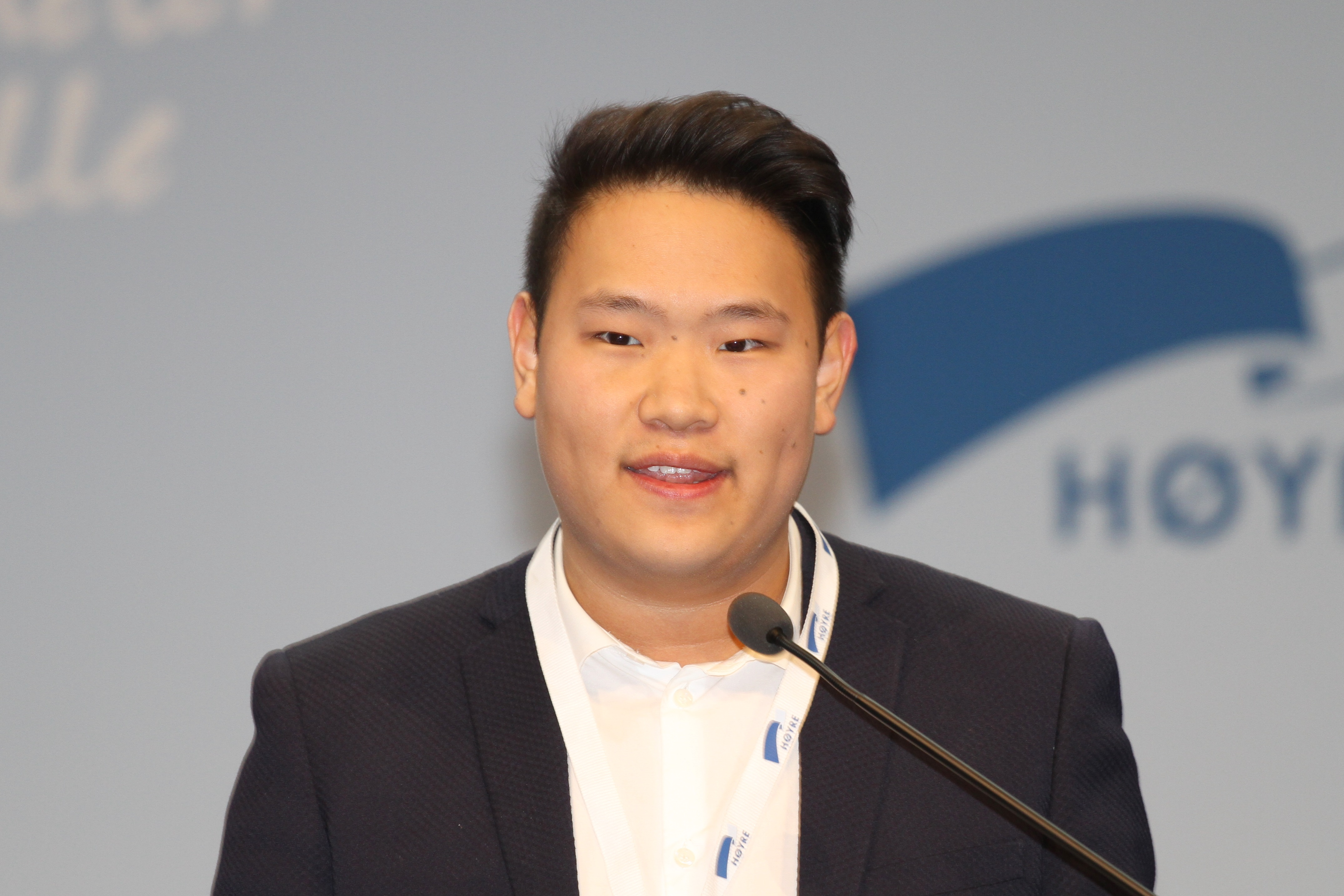 Daniel Skjevik-Aasberg